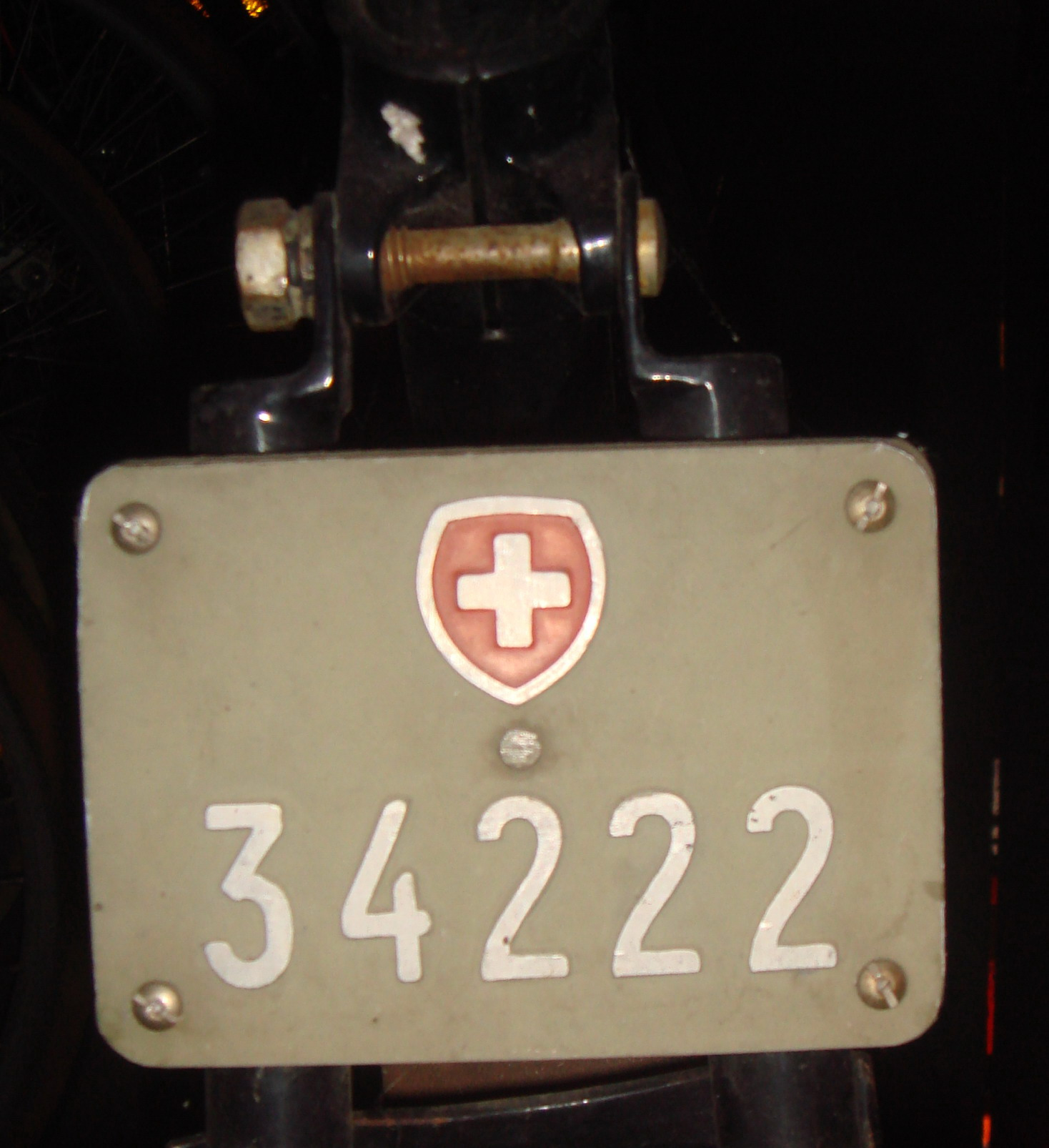 Swiss Army Bike